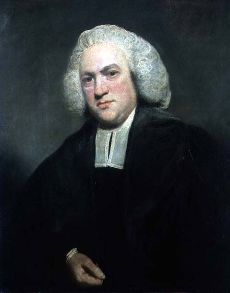 Portrait (1777), oil on canvas, of Joseph Warton (1722–1800) by Sir Joshua Reynolds (1723–1792)